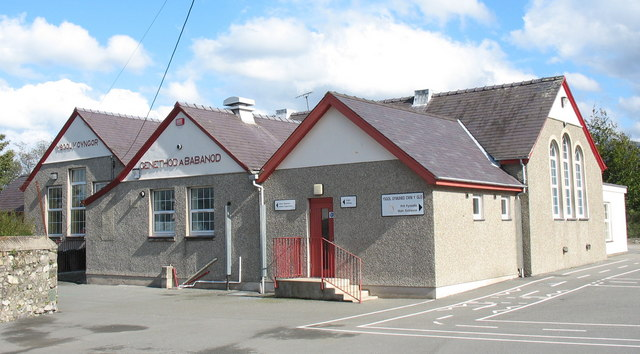 Ysgol Cwm-y-Glo This is a 3-11 community primary school with some 90 pupils serving Cwm-y-Glo and Brynrefail. At 11 students move on to Ysgol BrynrefailSH5363. An English version of its web site can be found on